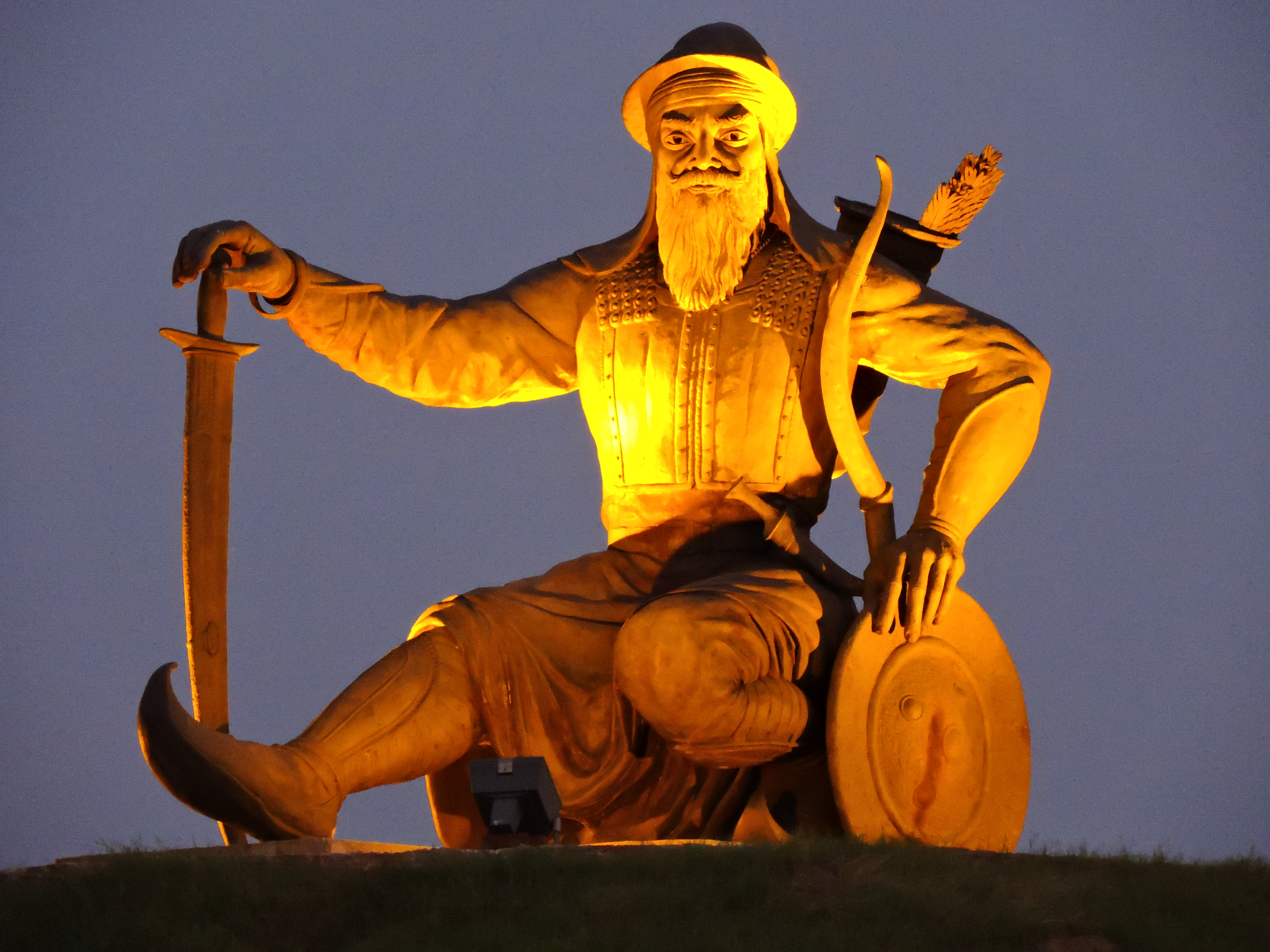 Statue of Baba Banda Bahadur the Sikh Warrior ,who won the battle at Chappar Chiri